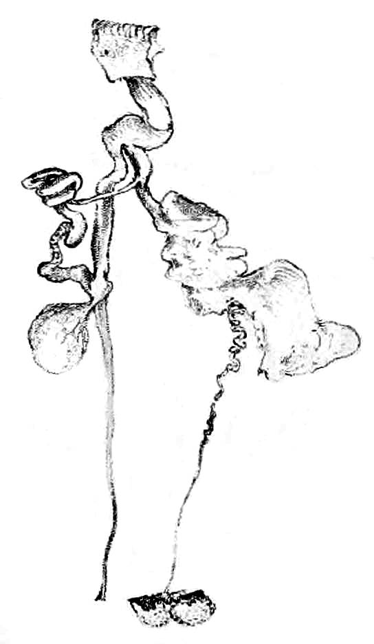 Drawing of reproductive system of Geomalacus maculosus.